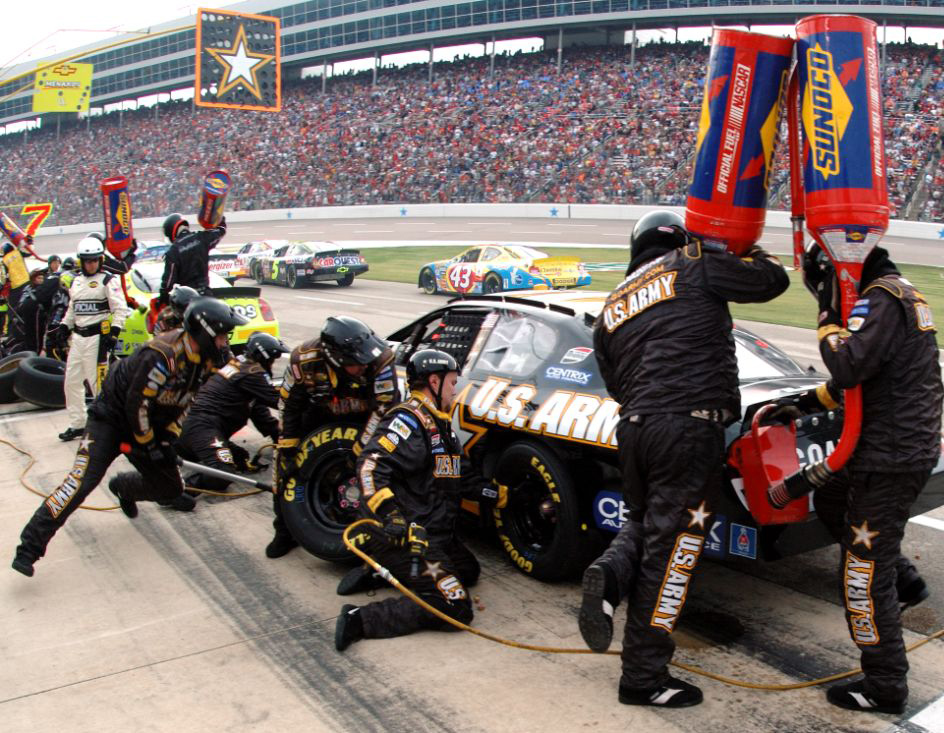 Joe Nemechek’s 01 Army NASCAR pit crew leaps into action mid-way through the Dickies 500 at the Texas Motor Speedway, changing four tires and filling the car’s fuel cell. Nemechek finished the race in 18th place Nov. 5. This photo appeared on